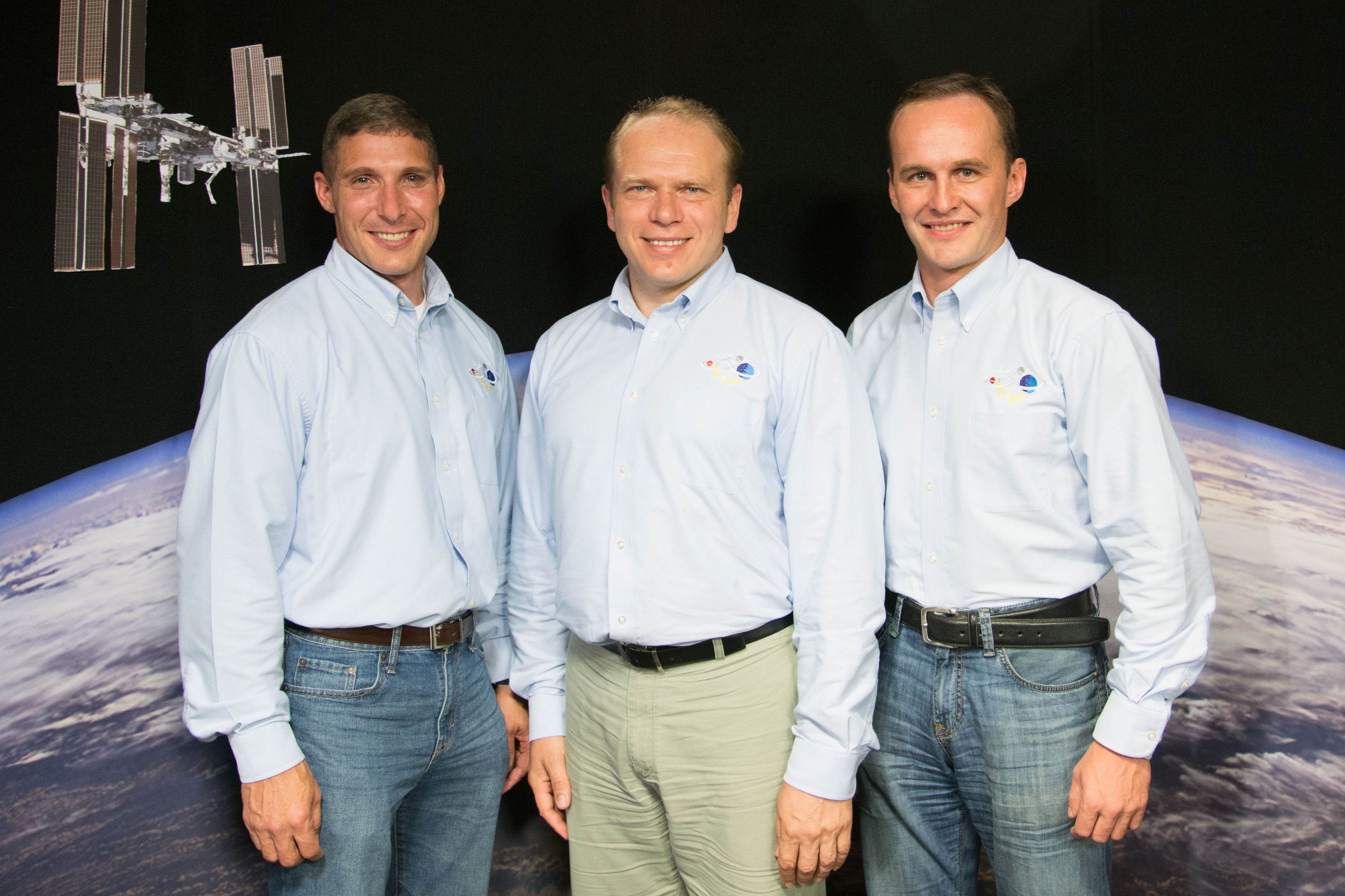 Russian cosmonaut Oleg Kotov (center), Expedition 37 flight engineer and Expedition 38 commander; along with NASA astronaut Michael Hopkins (left) and Russian cosmonaut Sergey Ryazanskiy, both Expedition 37/38 flight engineers, pose for a portrait following an Expedition 37/38 preflight press conference at NASA's Johnson Space Center.